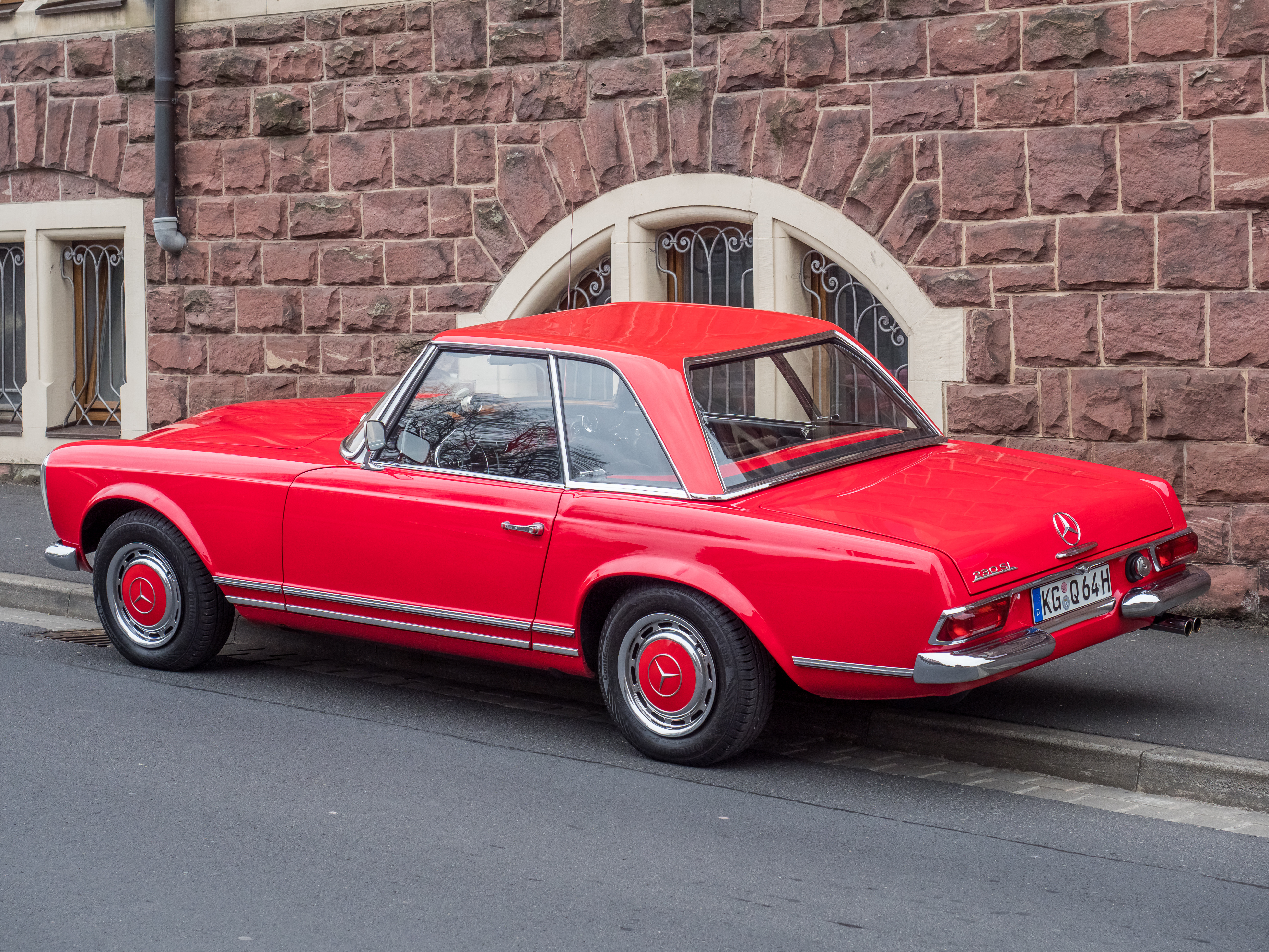 Mercedes-Benz W113 230 SL